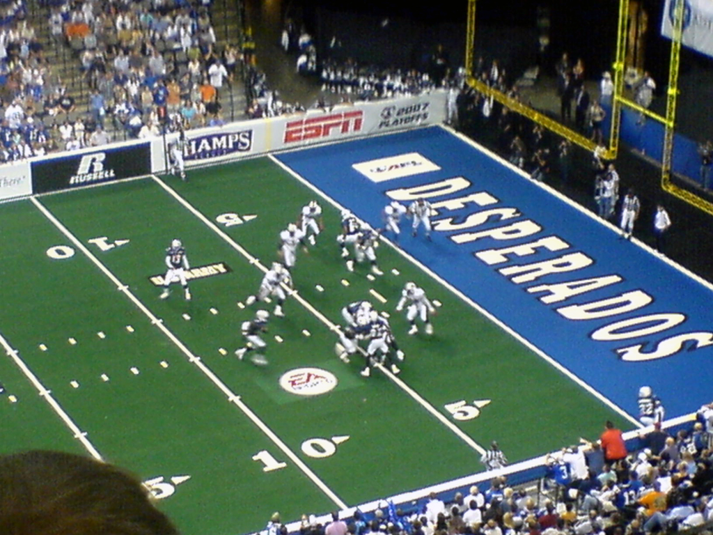 The Dallas Desperados in action against the Columbus Destroyers. Photo by Danny Burton, 07/08/07.